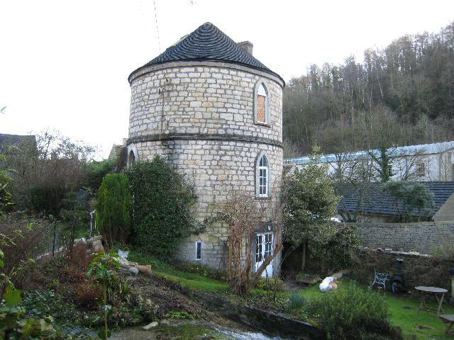 Chalford Roundhouse Chalford Roundhouse is a good example of a style of building characteristic of the Thames & Severn Canal. This example is situated at the site of Chalford Wharf and would have been built for the local canal lengthman.